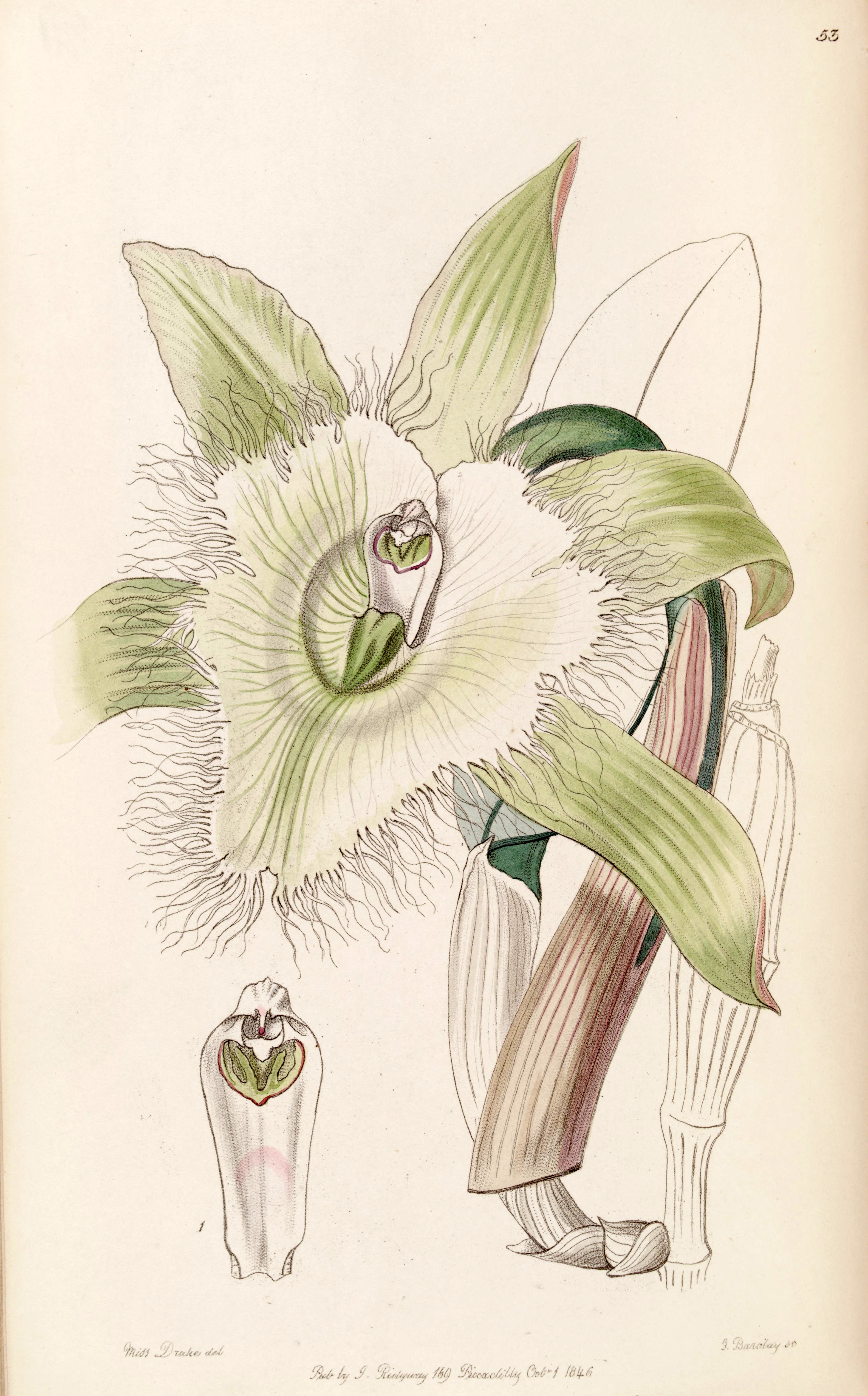 Illustration of Rhyncholaelia digbyana or Brassavola digbyana